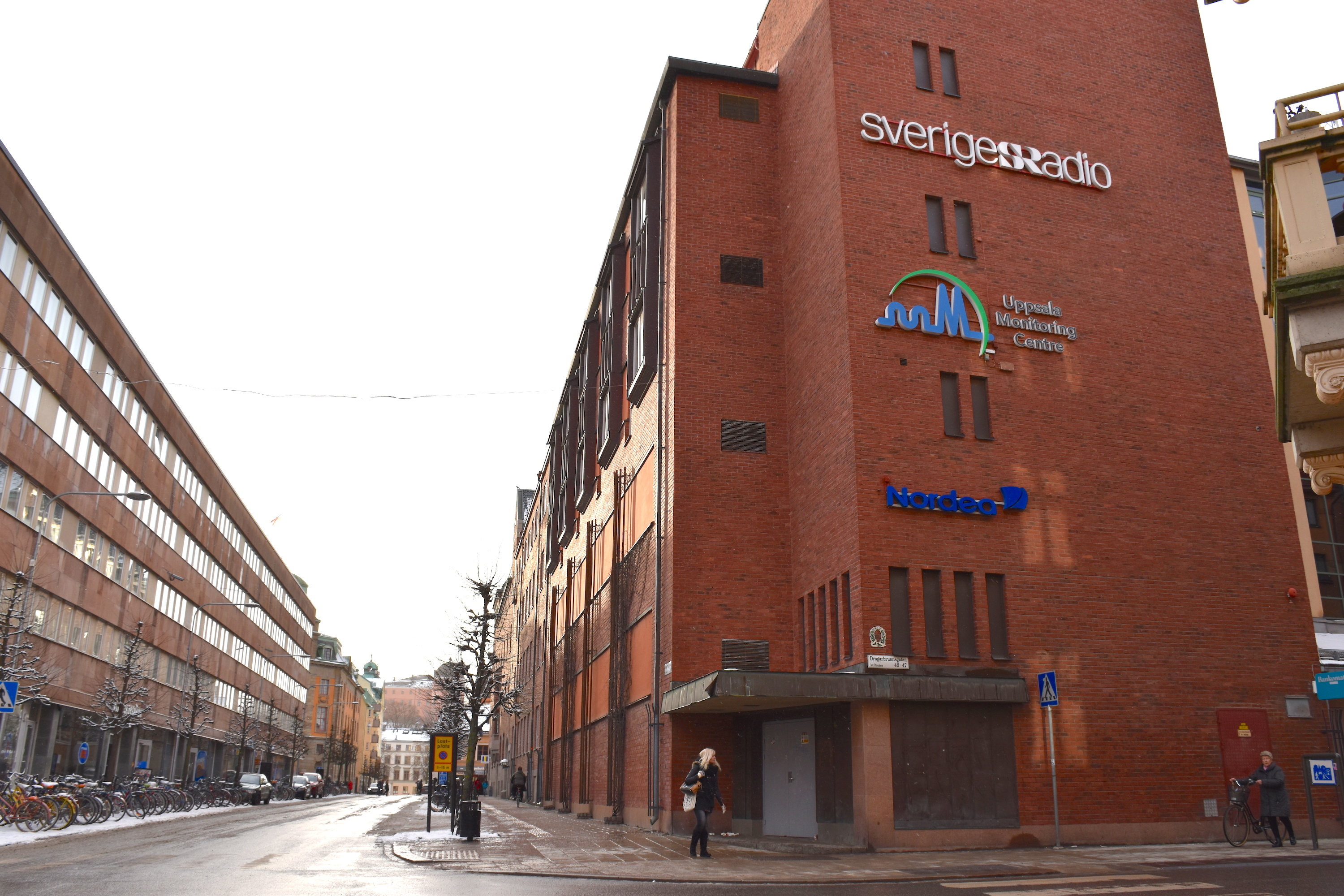 View of the facade around the corner from the entrance to Uppsala Monitoring Centre's offices in Uppsala, Sweden.